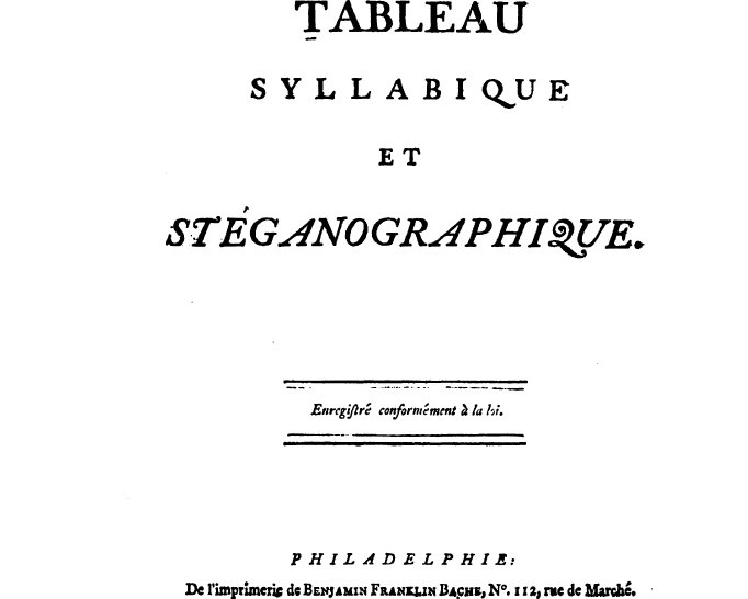 Tableau syllabique et steganographique